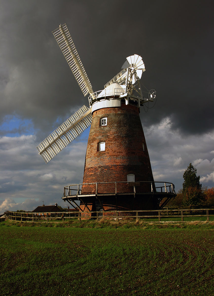 Thaxted Windmill Taken from the footpath leading away from the church.